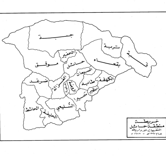 Saudy